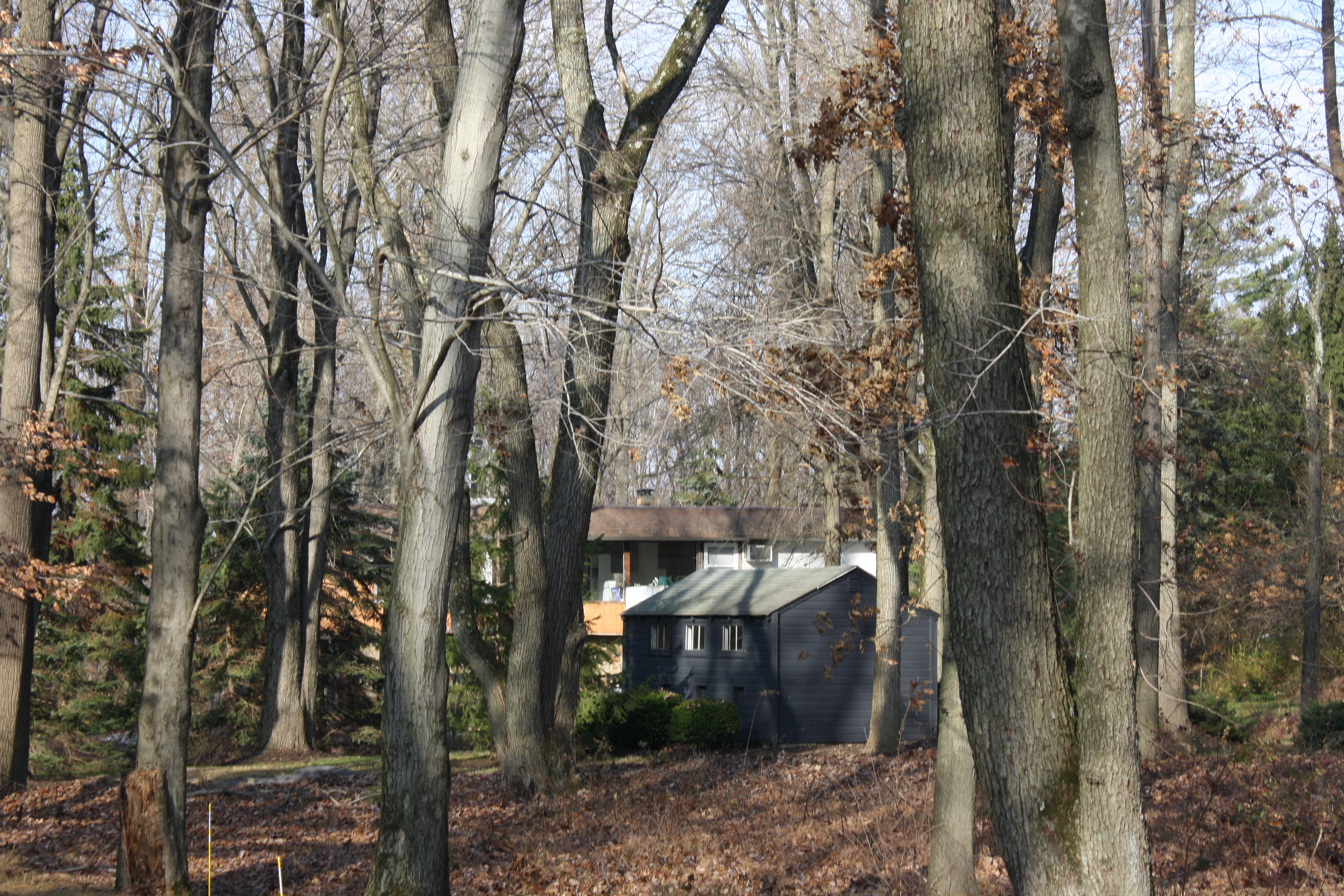 Waldenmark, also known as the Edward Fischer House, is a historic house, studio, garage, and guesthouse located in Wrightstown Township, Bucks County, Pennsylvania. Guesthouse is located to the South-West from the Main Building. It is in deep wooden area with limited visibility, windy driveway from Wrightstown Rd. is heading to the building. Guesthouse and small outbuilding, view from the South. Object location40° 16′ 32″ N, 74° 58′ 13″ W